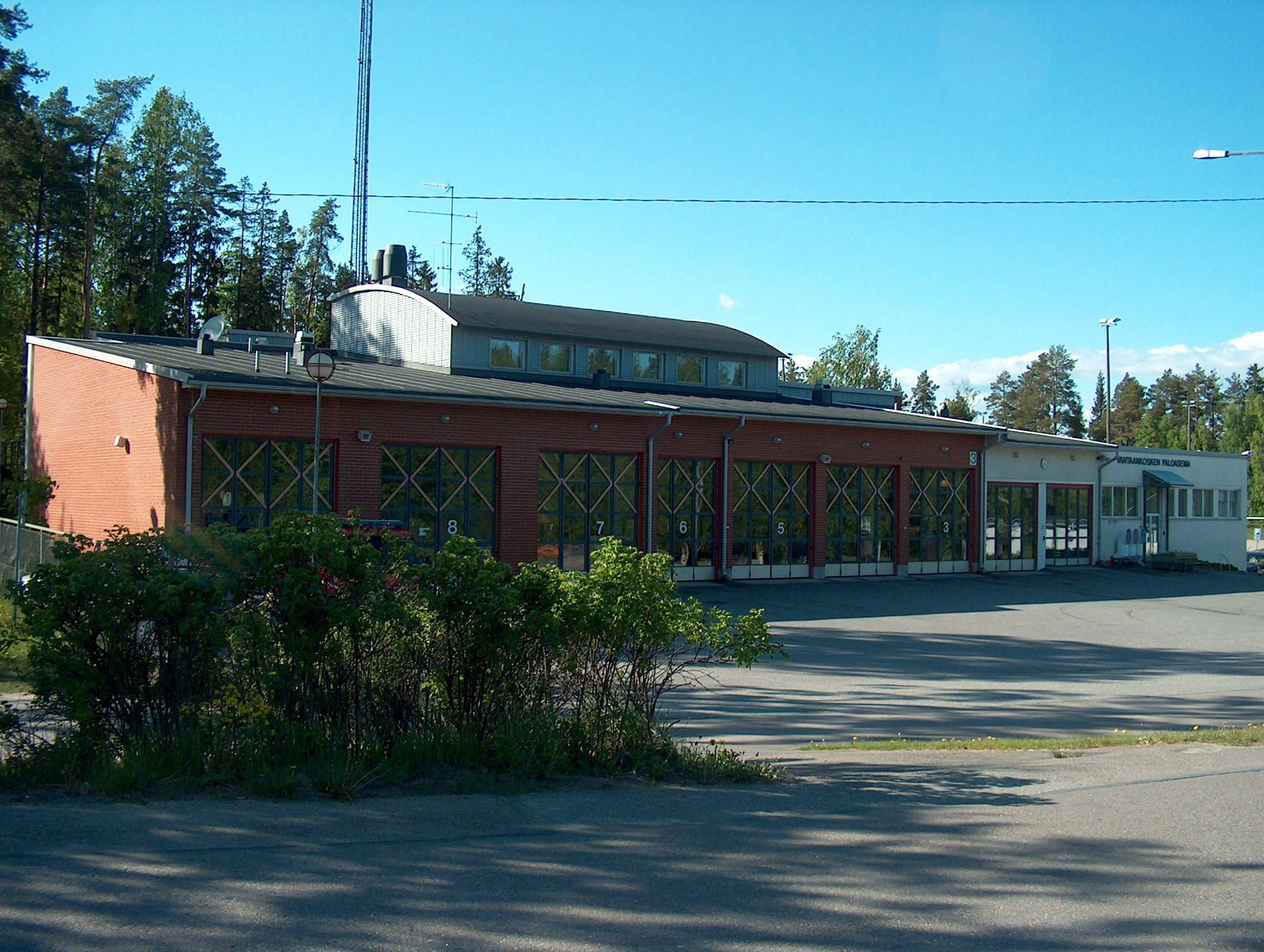 Vantaankoski Fire Station in Vantaa, Finland